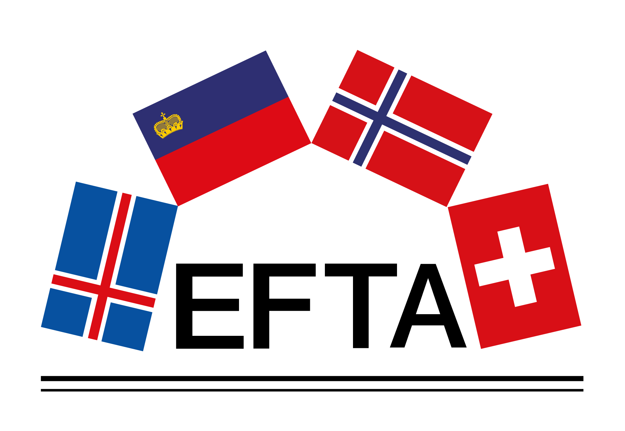 The official logo of the European Free Trade Association (EFTA)